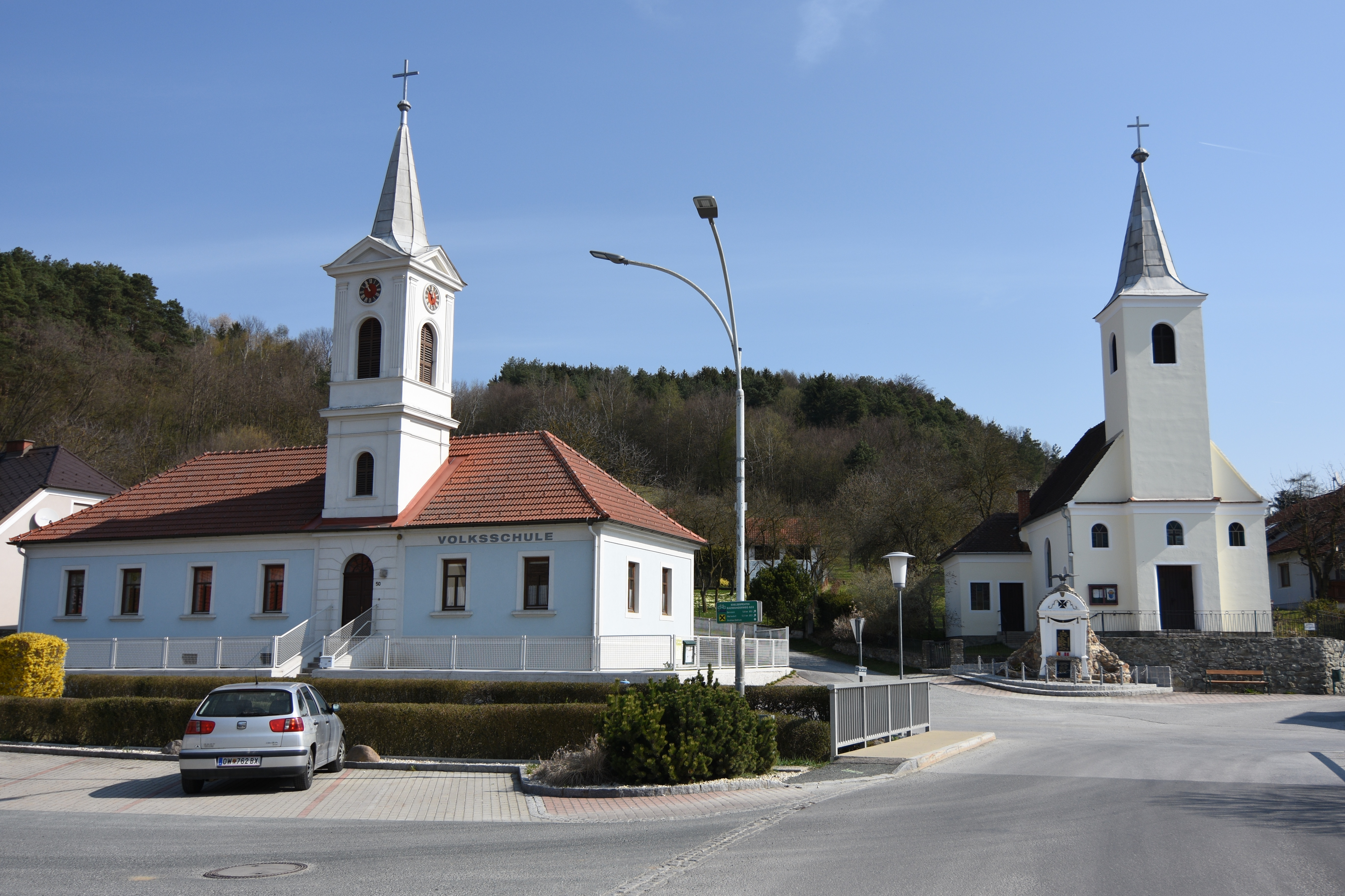 Grodnau